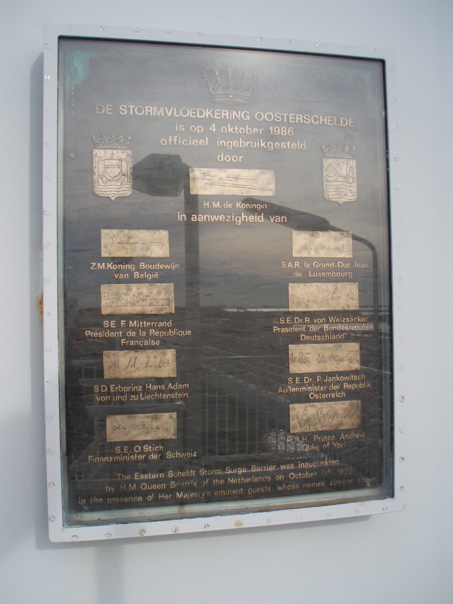 Remembrance of the Delta Works opening